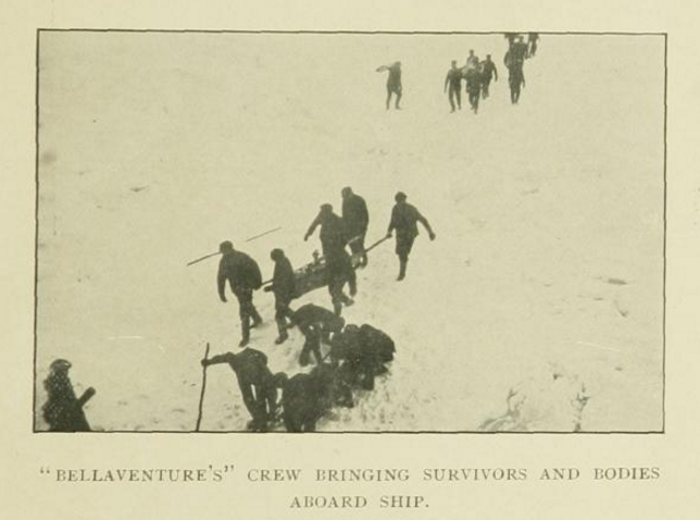 rescue operation after SS Newfoundland sealing disaster